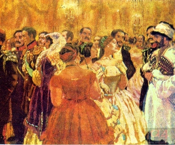 Illustration to Leo Tolstoy's "Hadji-Murat" by Eugene Lanceray (1913)